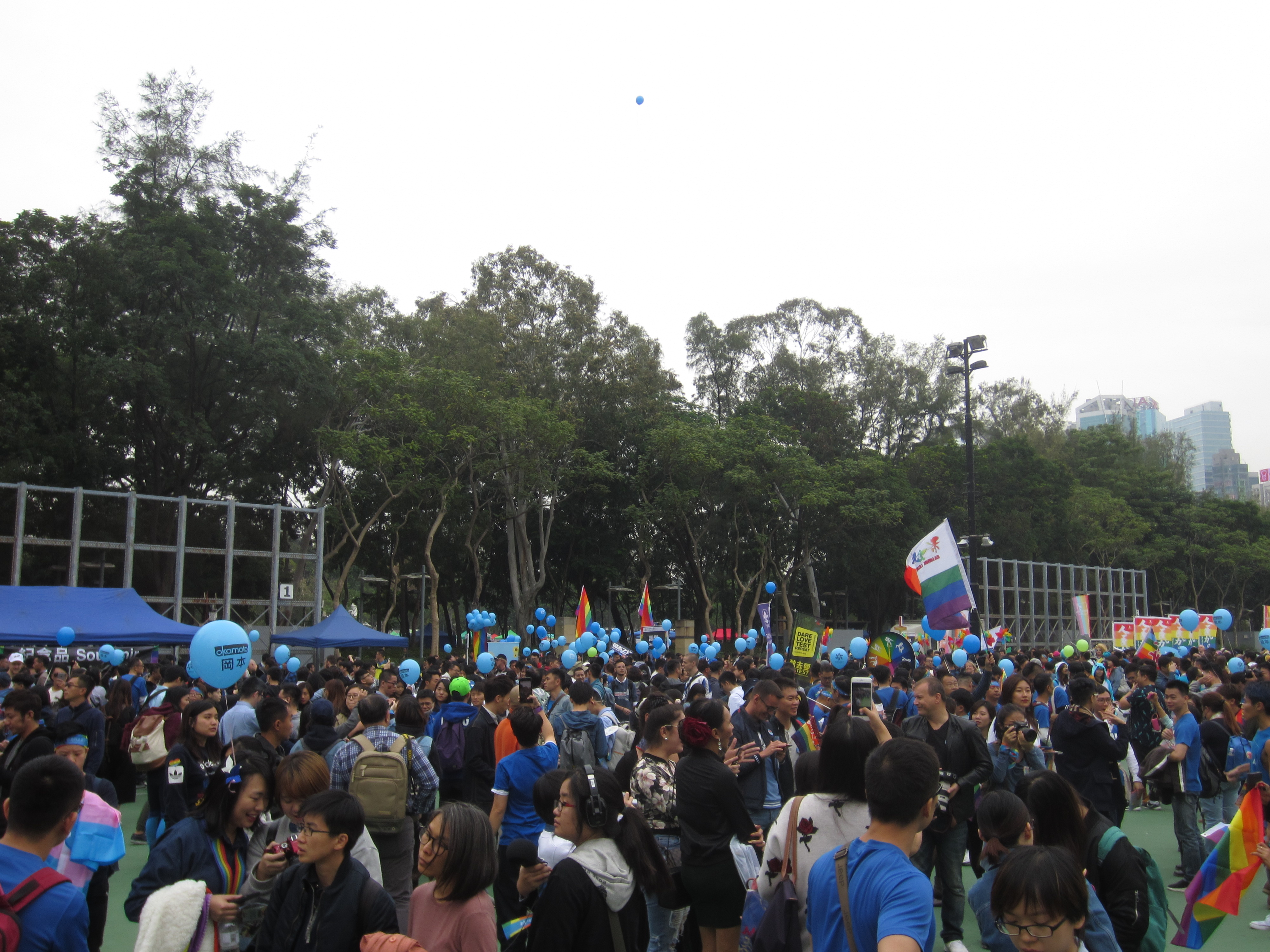 Hong Kong (November 2017)